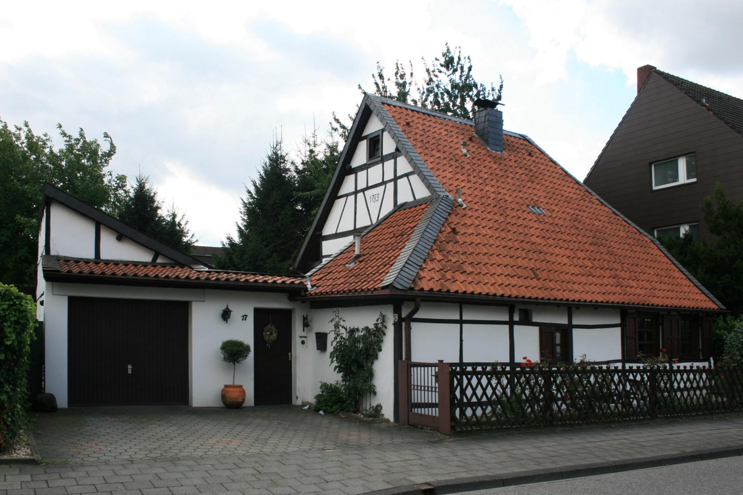 Cultural heritage monument No. T 003 in Mönchengladbach